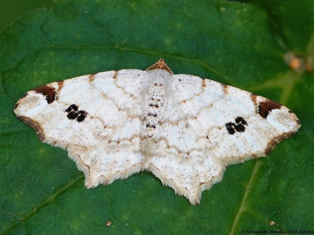 Macaria notata